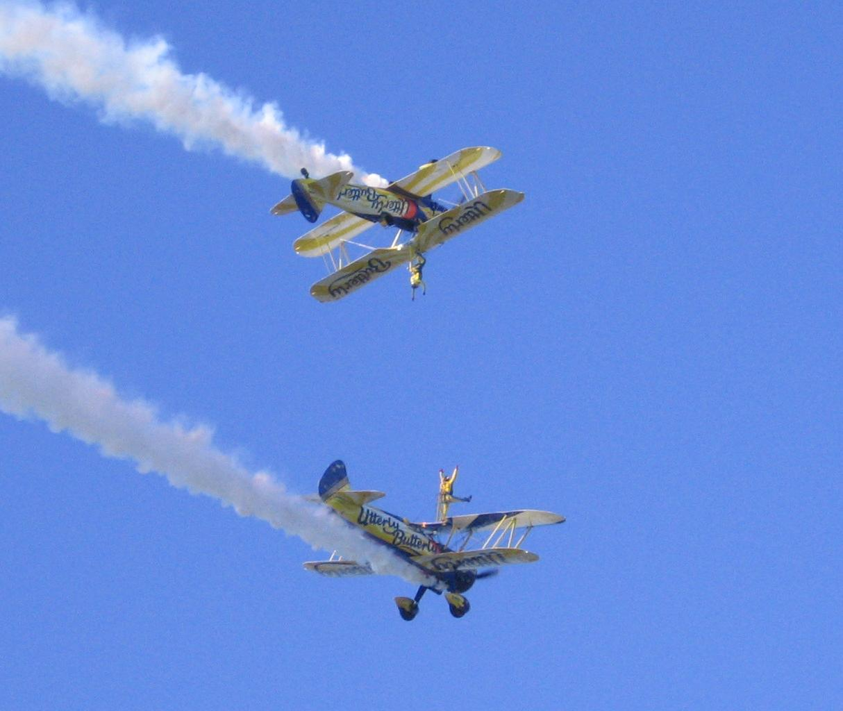 The UK Utterly Butterly display team displaying wing walking.